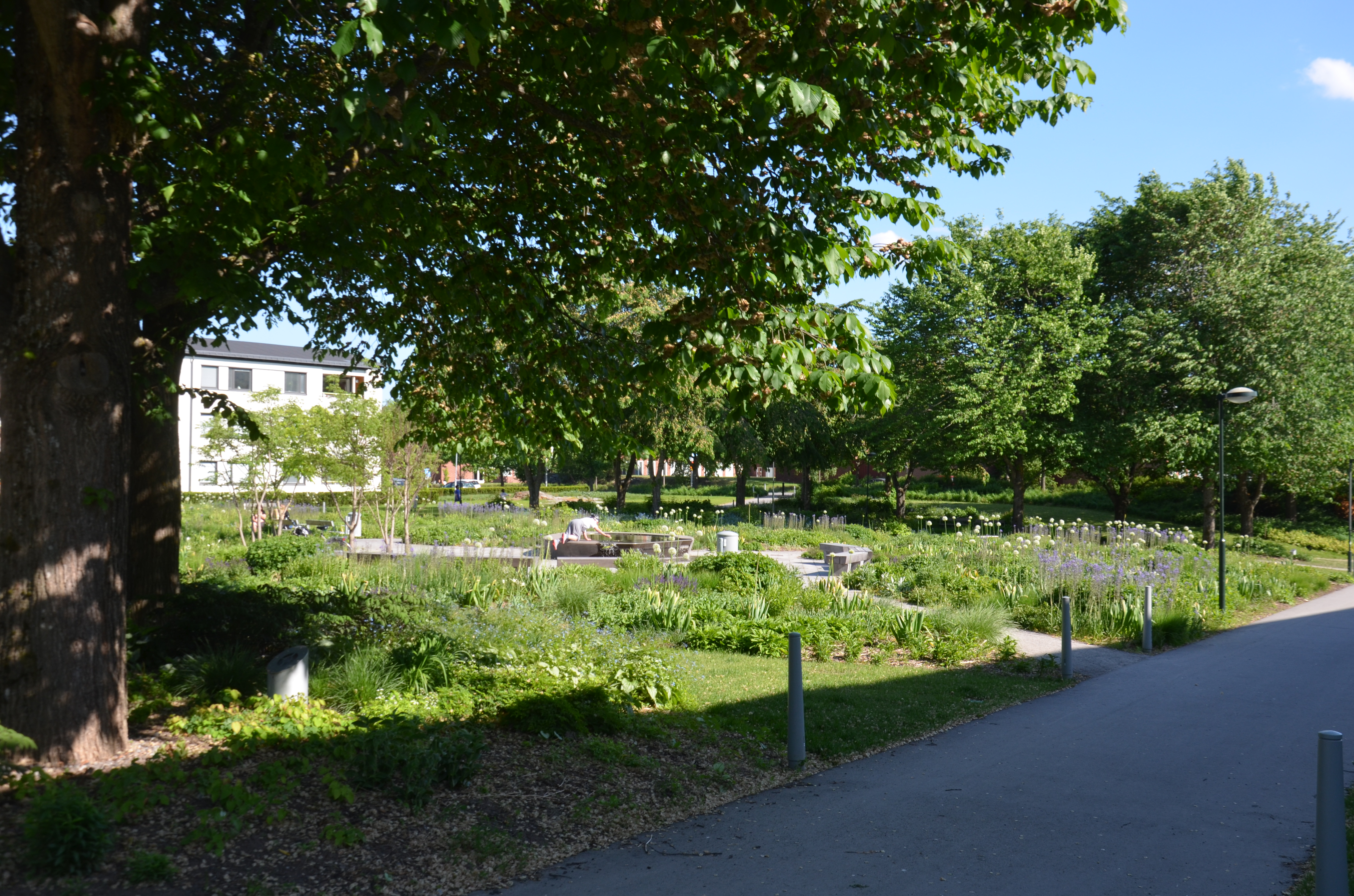 Perennparken at Skärholmen in Stockholm, Sweden. Designed by Piet Oudlof.